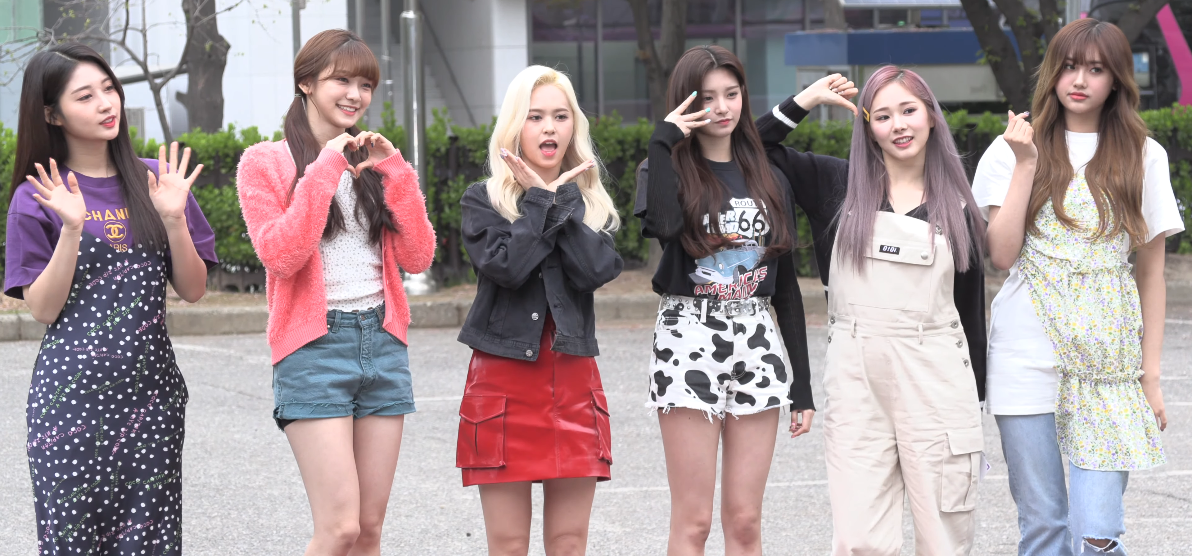 Everglow at Music Bank on April 19, 2019